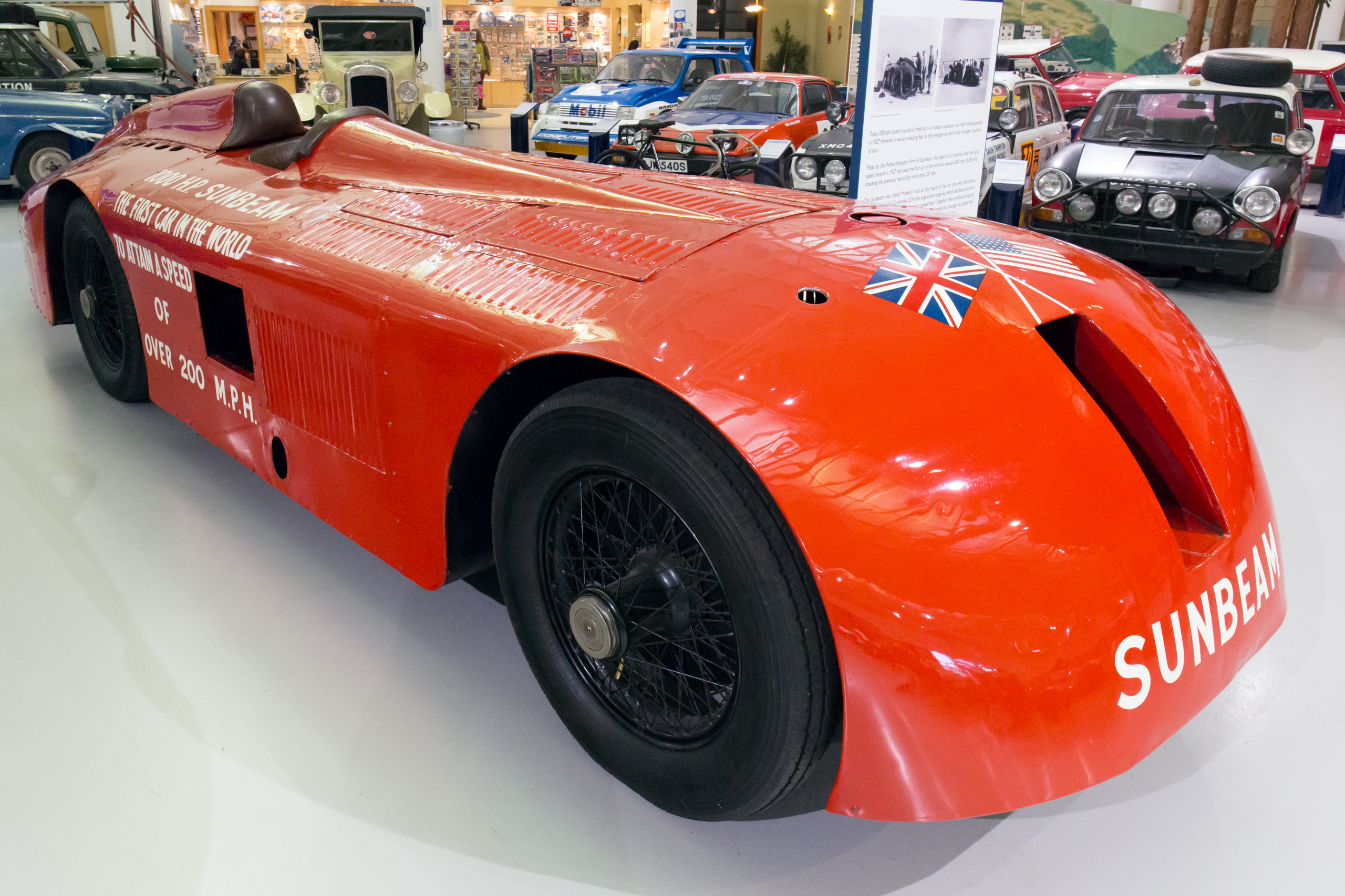 1927 Sunbeam 1000hp